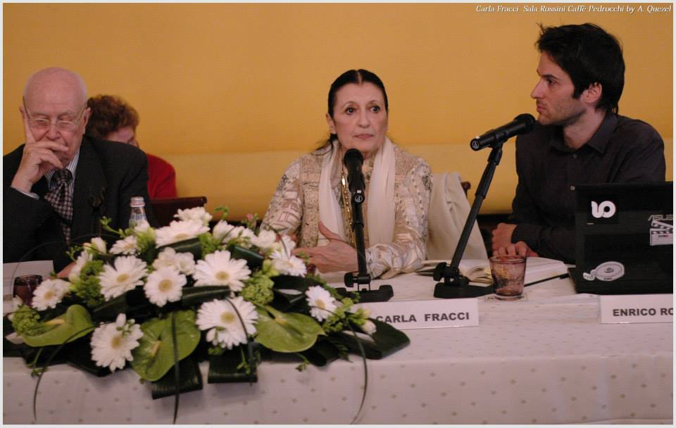 Carla Fracci Enrico Rotelli Beppe Menegatti